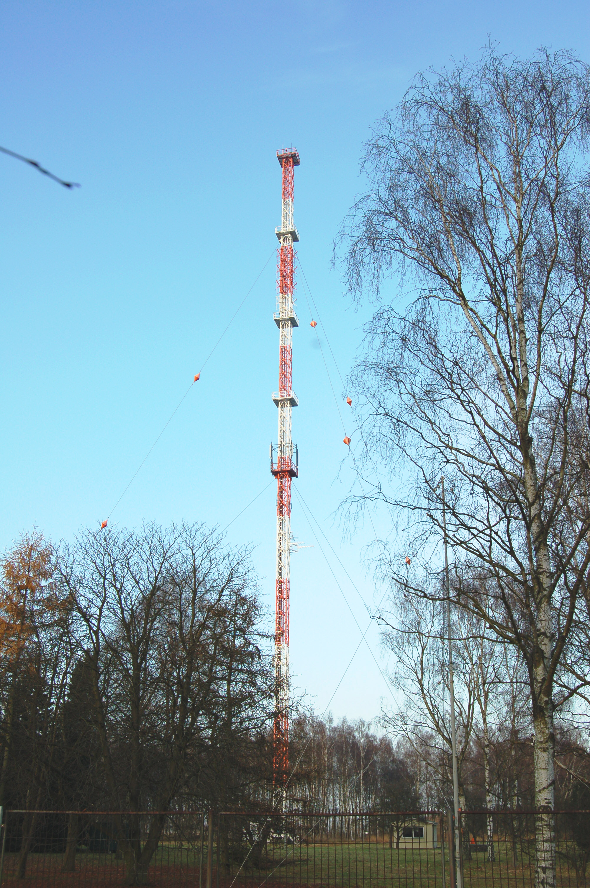 transmitting antenna of Wittsmoor (transmitting station Wedel)